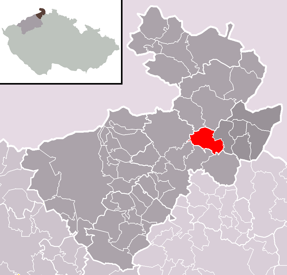 Location of Chřibská town within Děčín District and administrative area of Varnsdorf as a Municipality with Extended Competence.